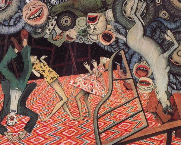 from Violence series